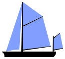 Hinted to 131 × 119. Best displayed as an integer multiple of those dimensions.